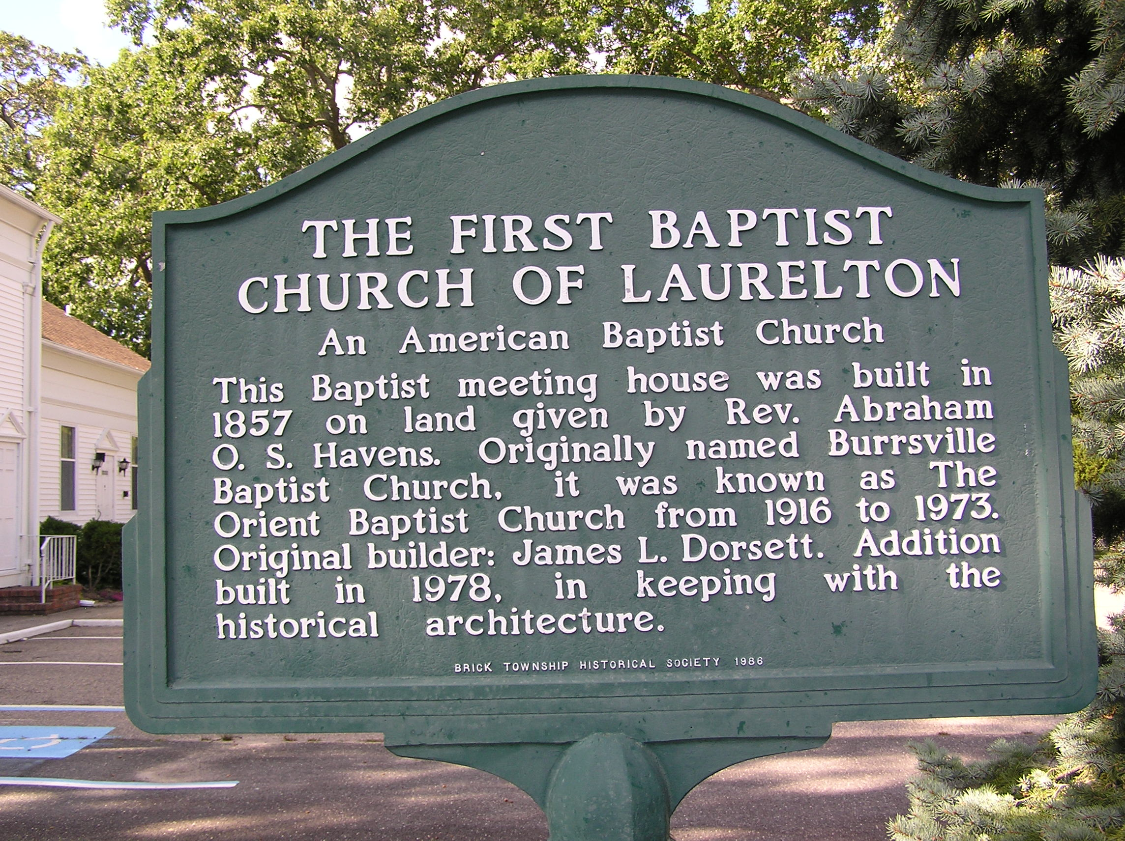 Information plaque at the Orient Baptist Church, now known as The First Baptist Church of Laurelton, located on the north side of NJ Rt. 88 E. and Post Road, in the Laurelton section of Brick Township, NJ.